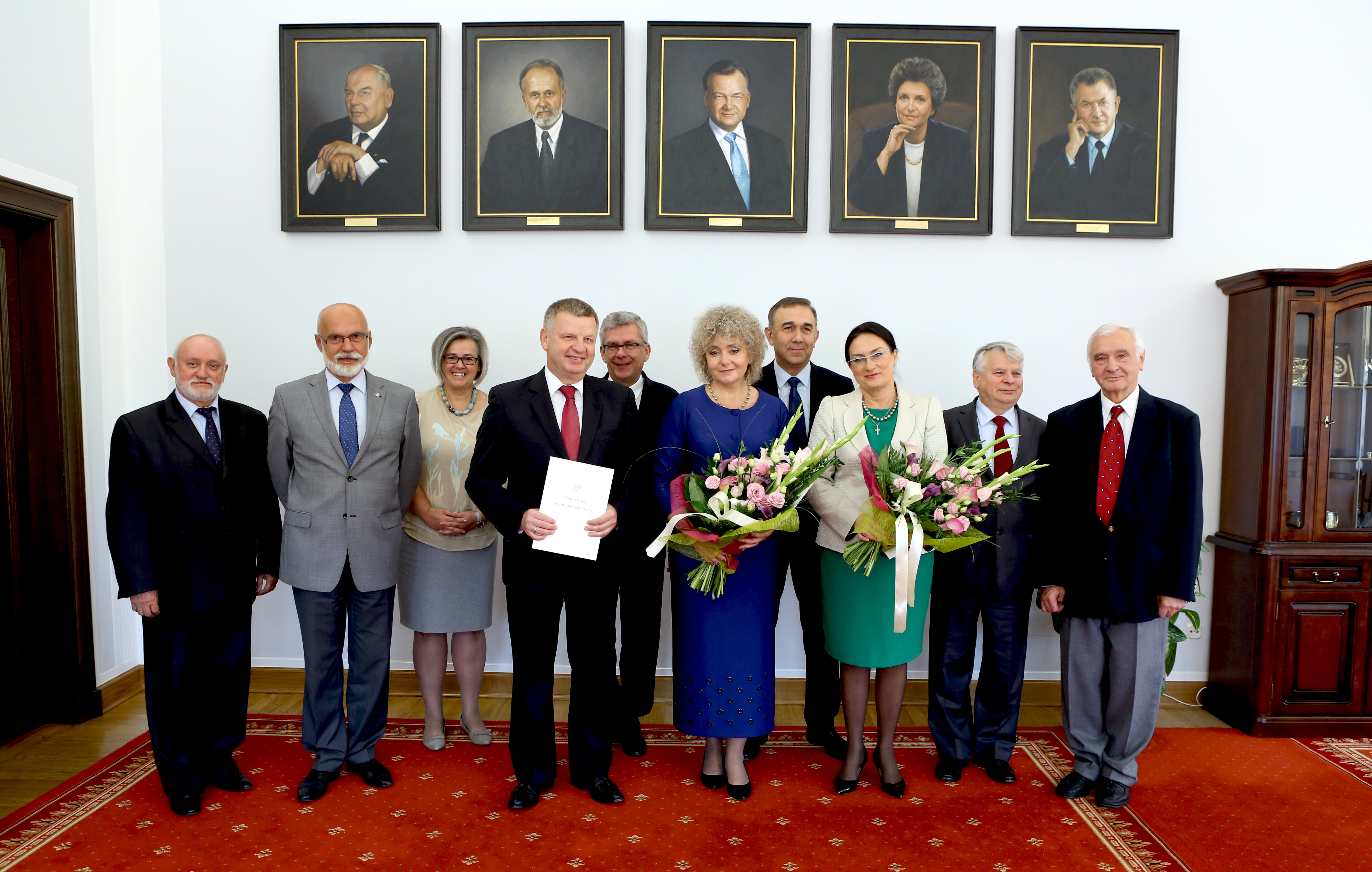 Ceremony of handing over certificates of election to the newly elected senators: Izabela Kloc, Maria Koc and Jarosław Rusiecki